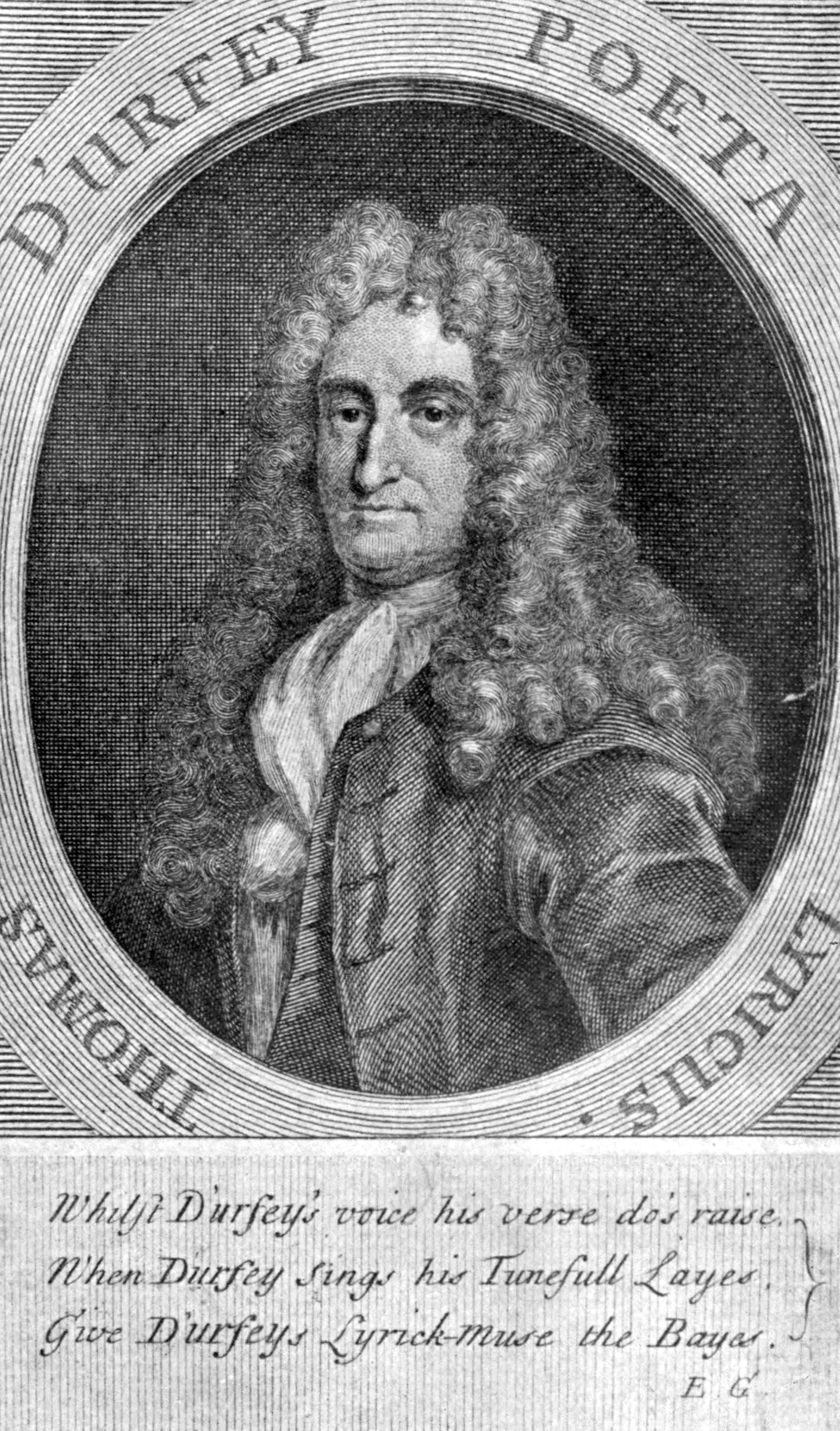 From a scanned version of Devonshire characters and strange events by Sabine Baring-Gould, published in 1908